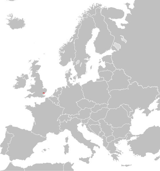 The European route 32